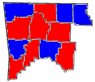 Results of the Arkansas District 2 United States House of Representatives elections in Arkansas, 2010 Mayor Steve Womack (R) David Whitaker (D)